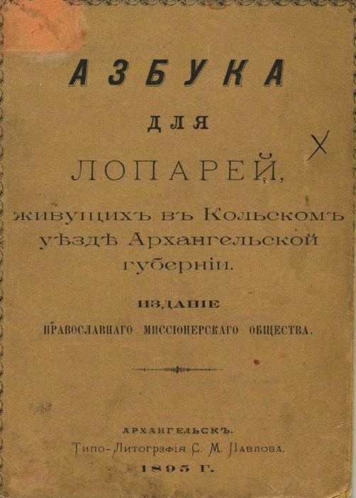 Front cover page of the first Skolt Sami primer, written by Konstantin Ščekoldin